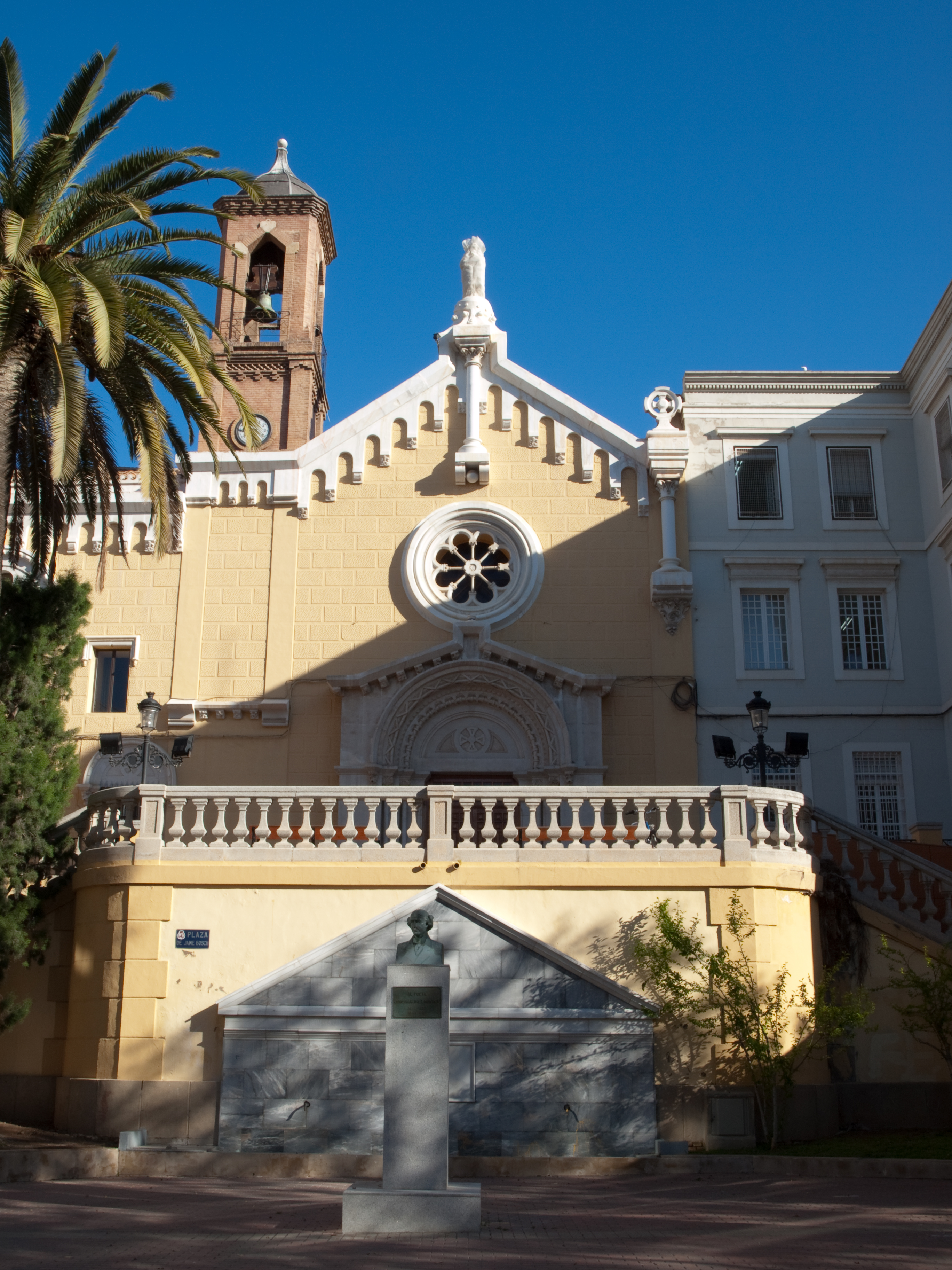 The Church of San Diego, in the old town of Cartagena (Spain).